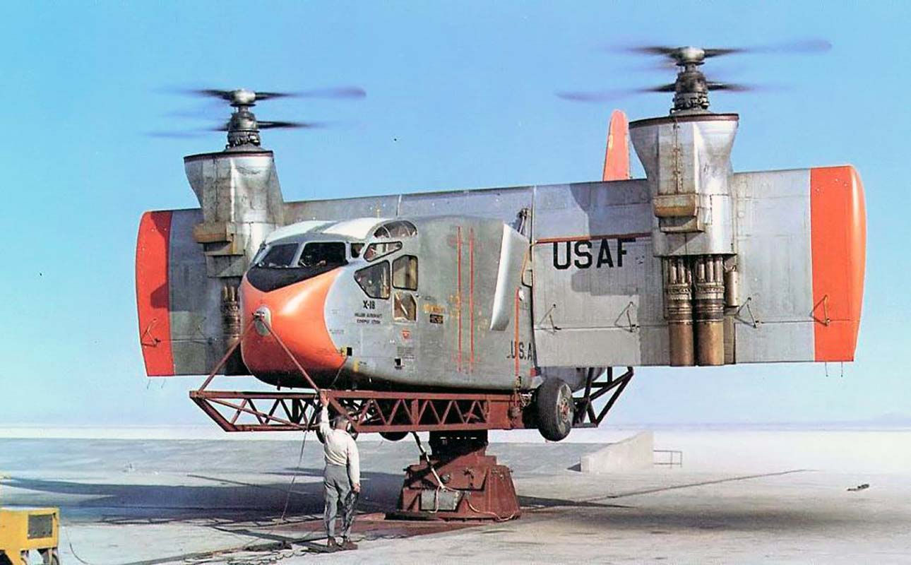 Hiller X-18 on testing platform with fully rotated wings